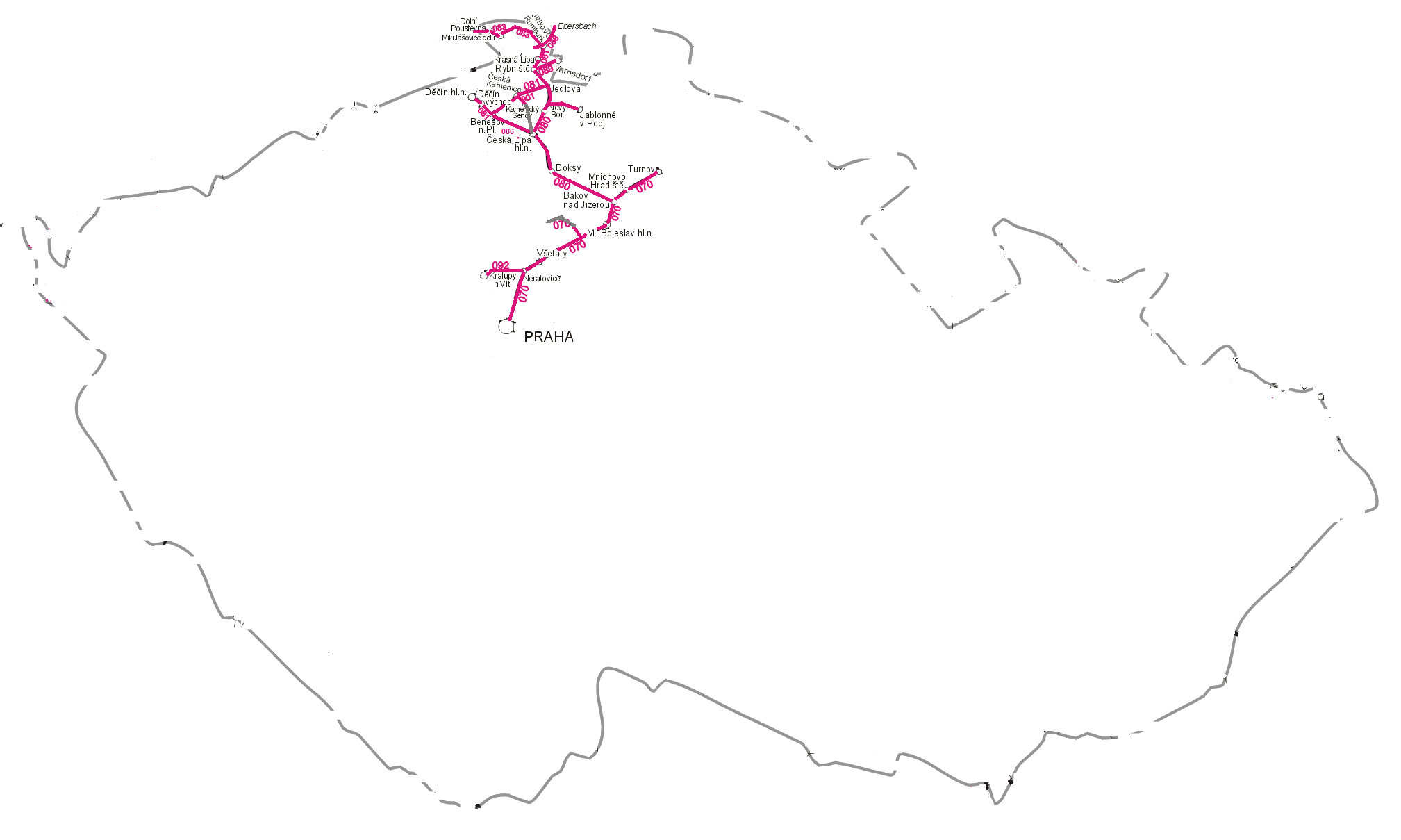 network of rail company BNB (Czech republic)